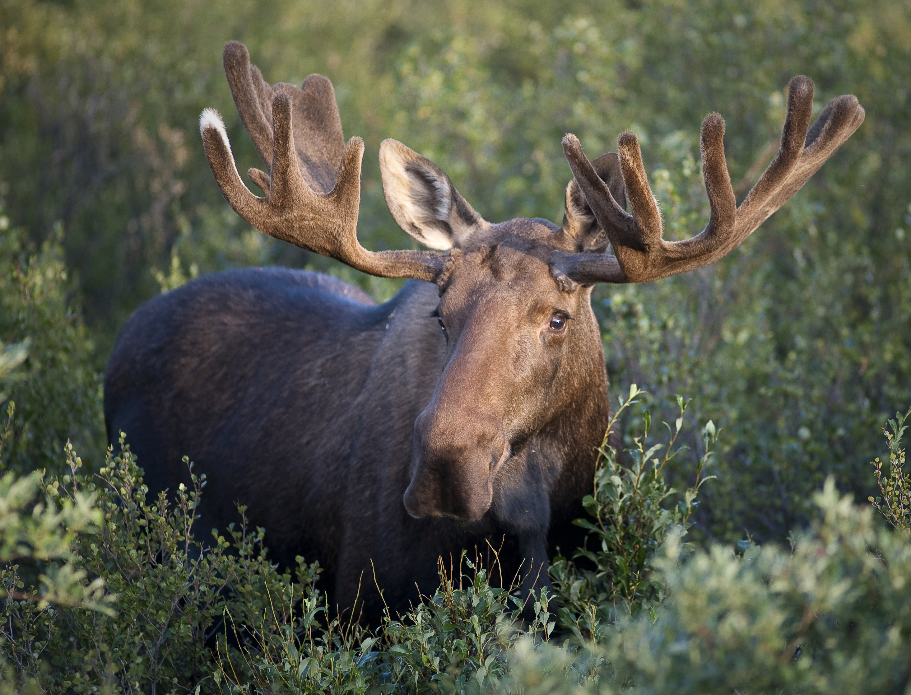 Bull moose in Denali National Park